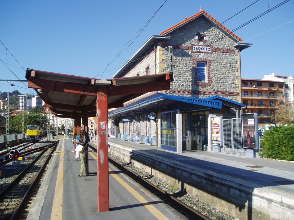 Railway station of Zarautz (Gipuzkoa).